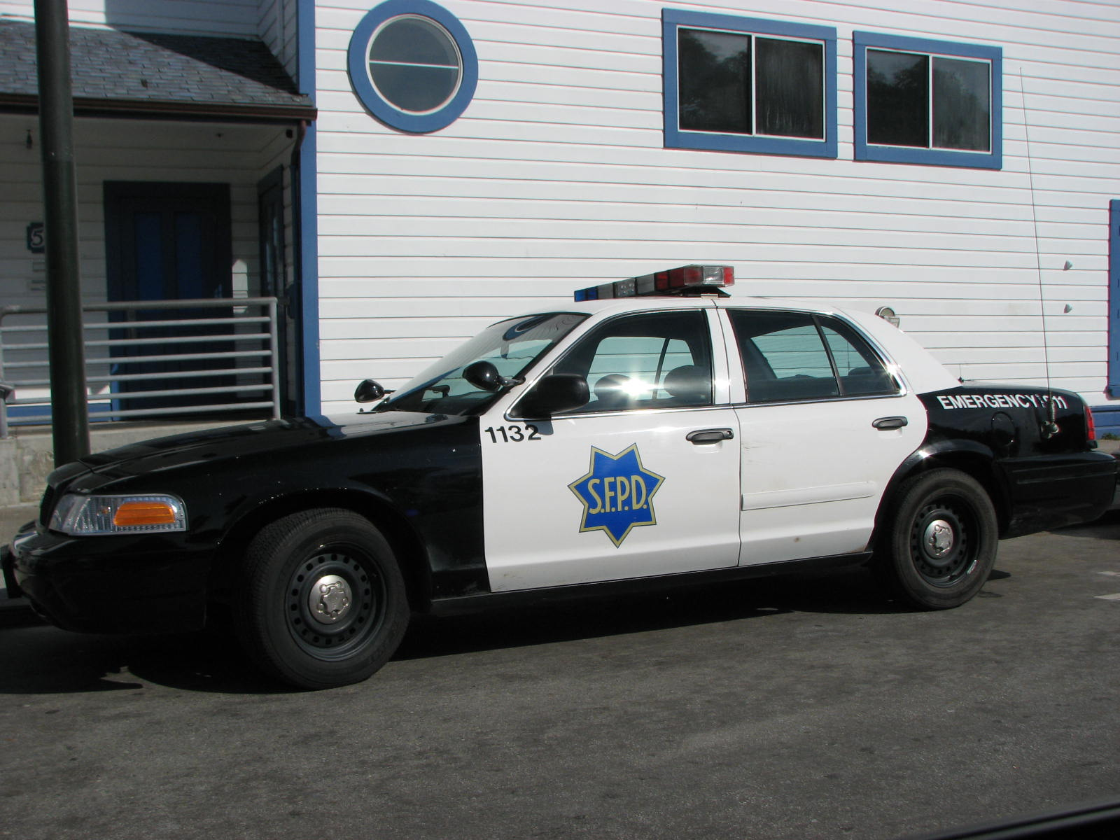 San Francisco Police Dept. Ford Crown Victoria